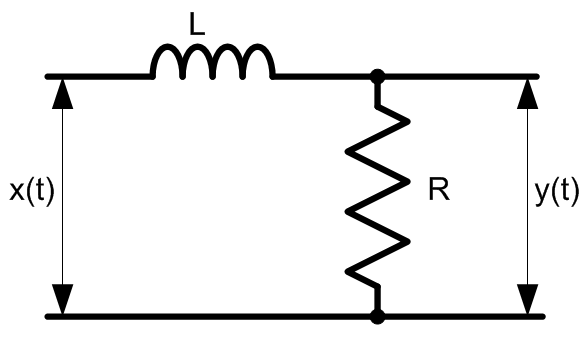 Circuit 1